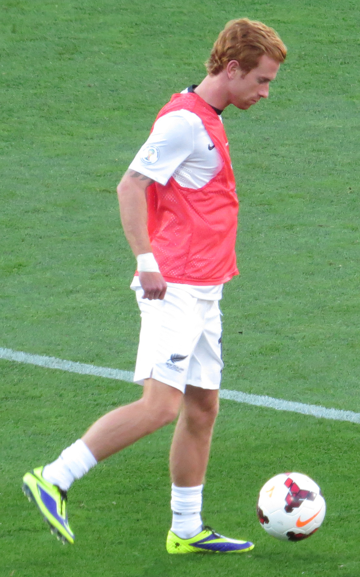 New Zealand All Whites midfielder Aaron Clapham warming up during their 2014 World Cup Qualification match against Mexico in November 2013.